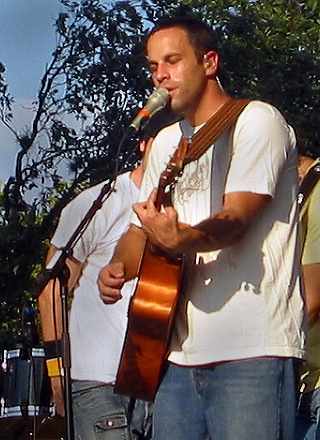 Jack Johnson (Hawaii-born singer-songwriter) at ACL Fest Sep 2004.